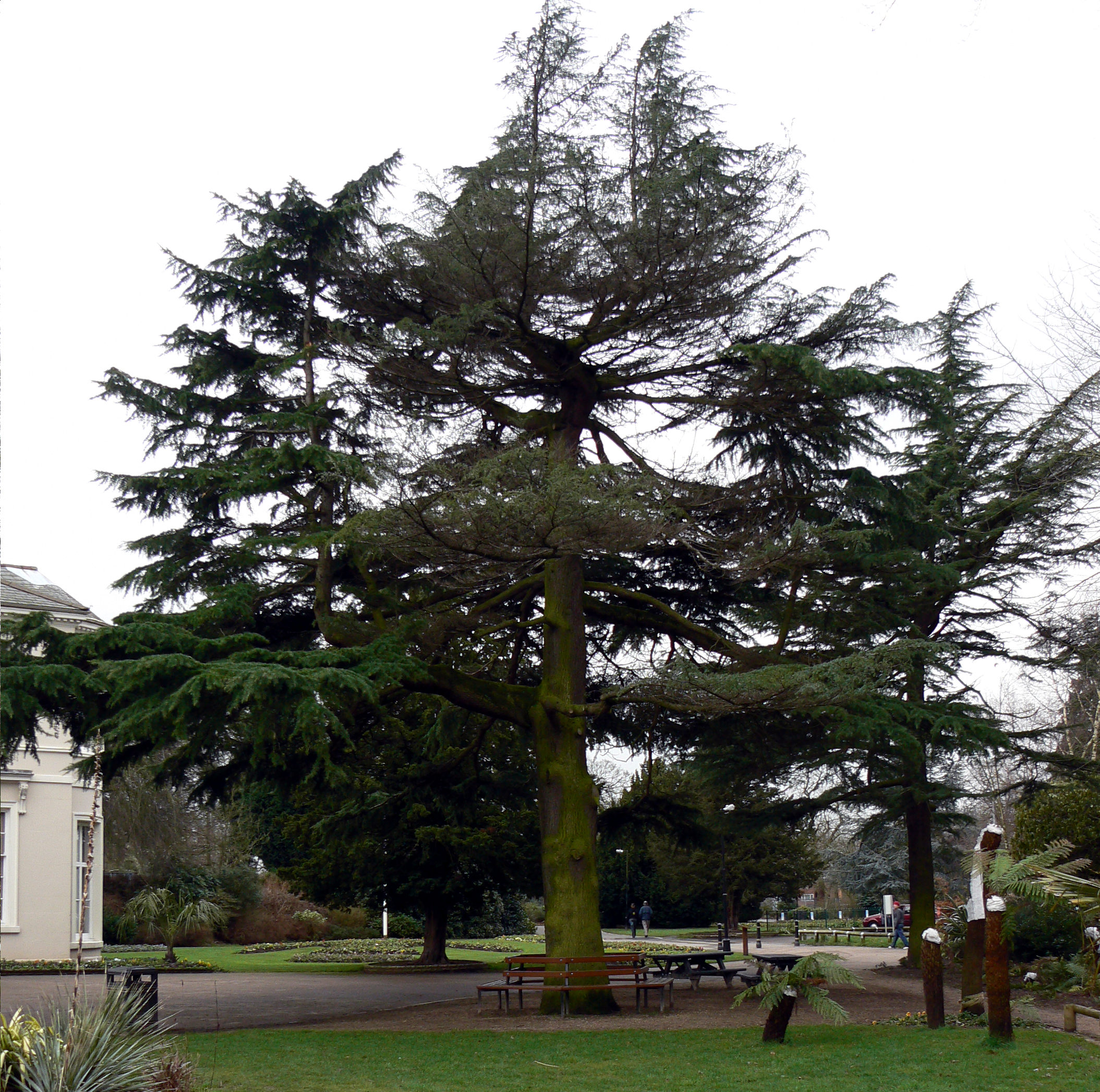 A cedar tree in Kings Heath Park, Birmingham, England.